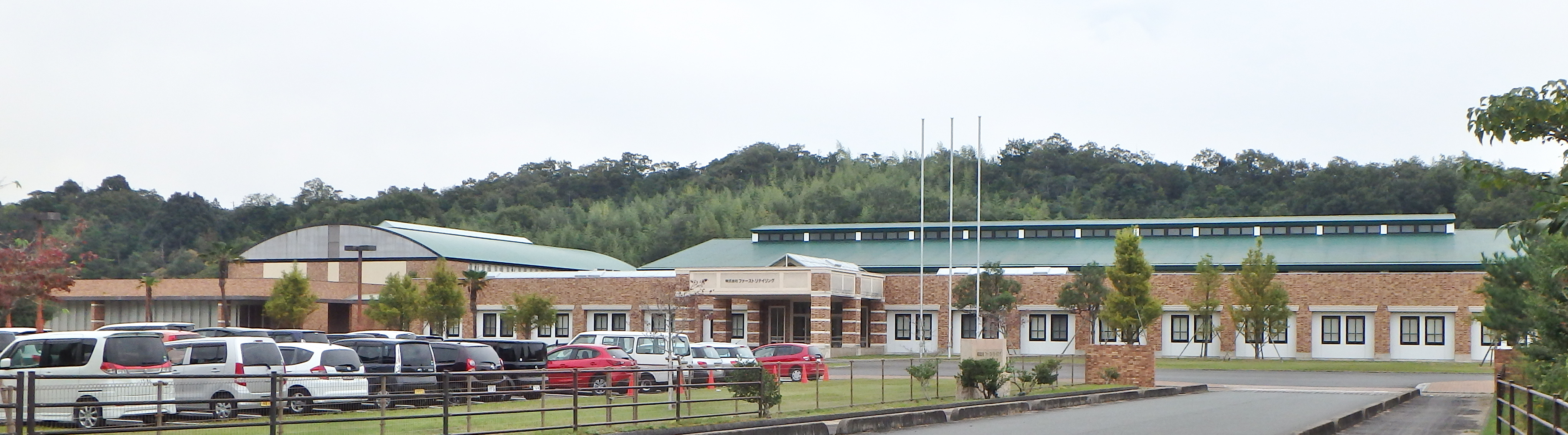 Headquarters of Fast Retailing Co., Ltd. ,Yamaguchi prefecture,Japan